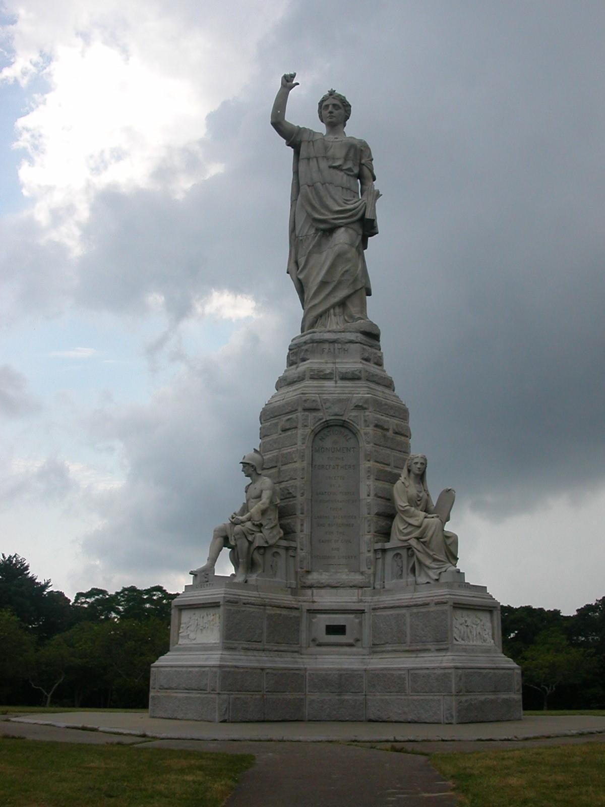 National Monument to the Forefathers in Plymouth, MA